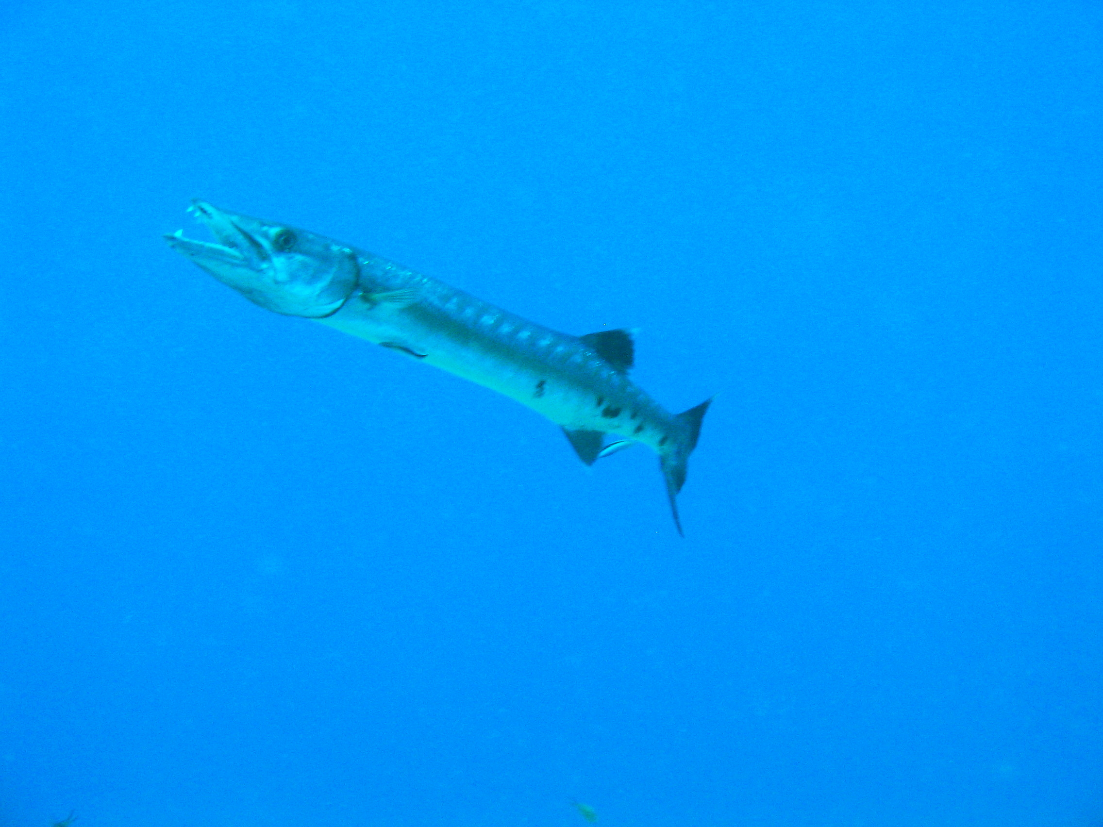 Great barracuda Sphyraena barracuda